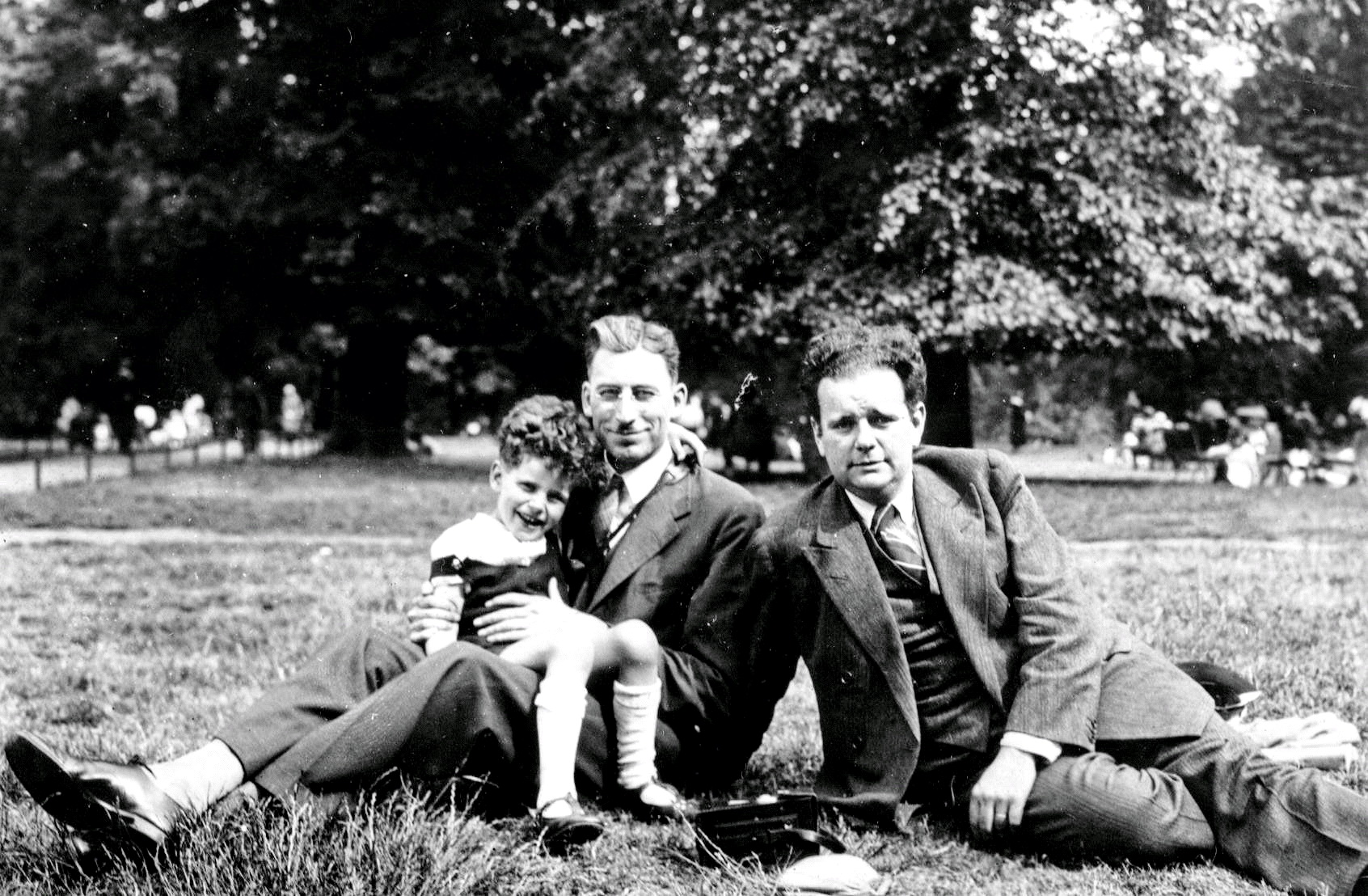 Archibald Hill (Nobel 1922) and Louis Bugnard in Hyde Park